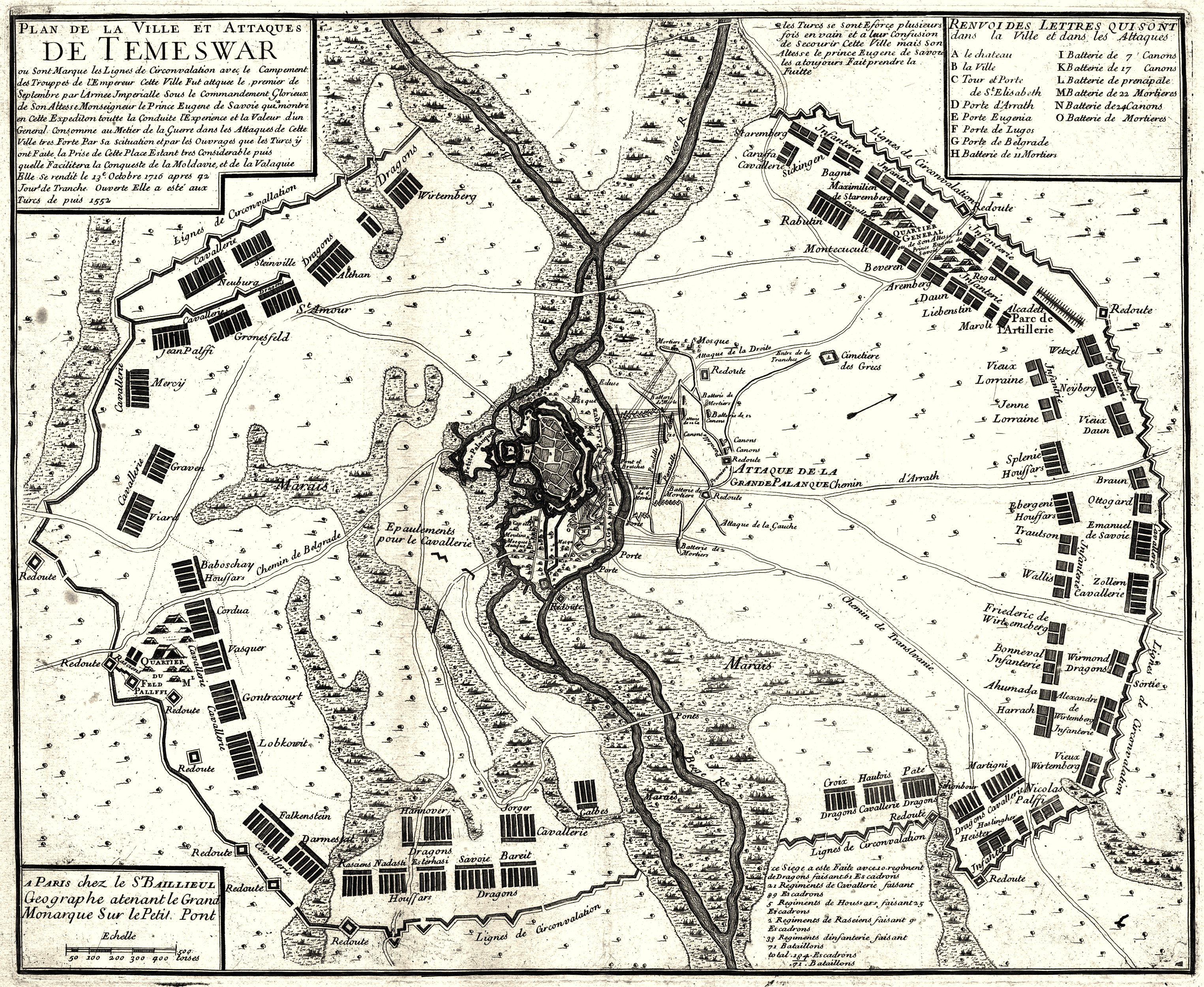 Map of the Timisoara siege, 1716